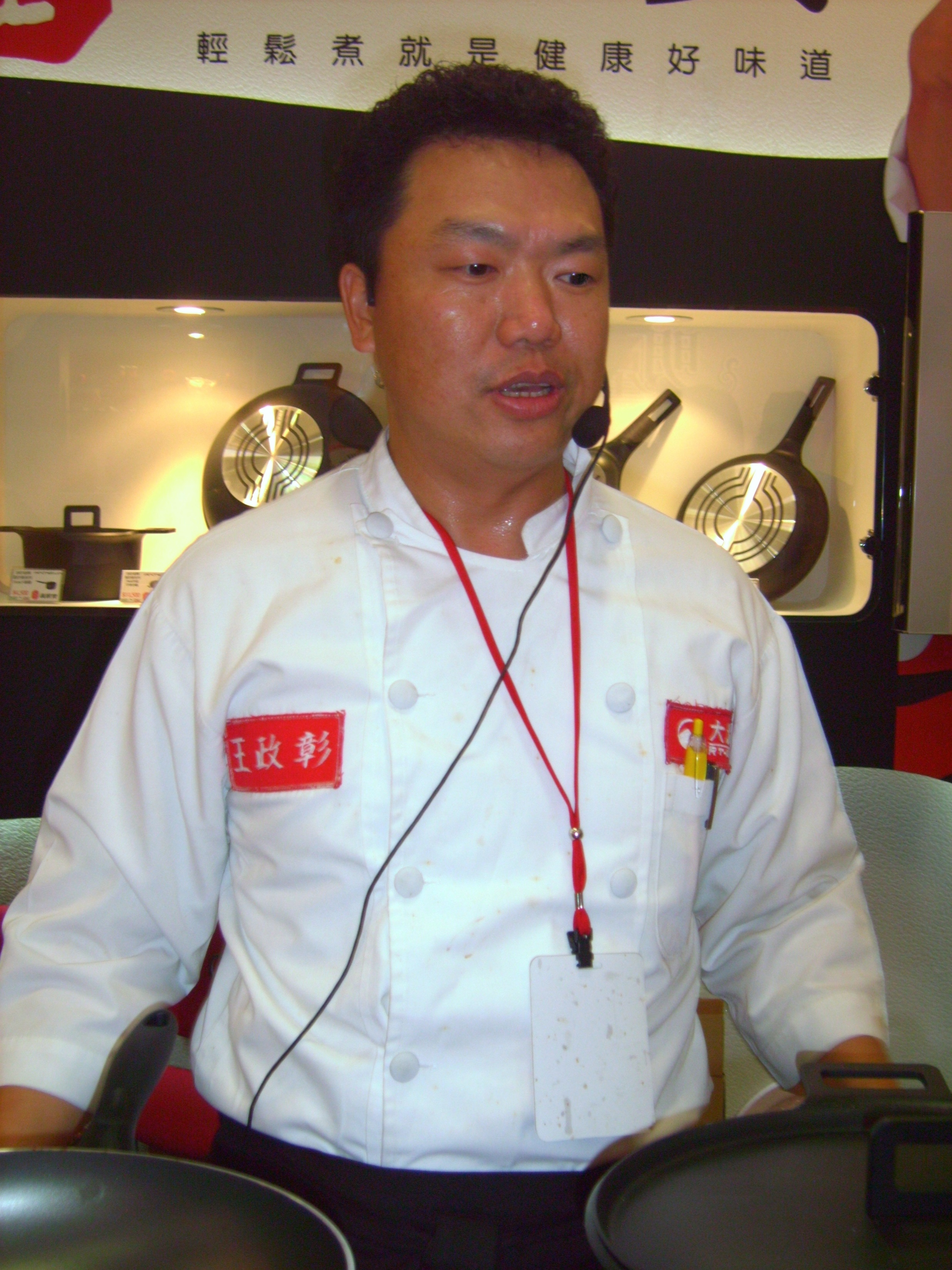 Taiwanese famous chef "A-diong-sai" Cheng-chang Wang.